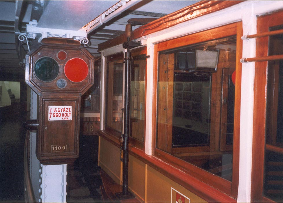 Light signal of Budapest underground - Museum at Deák Ferenc square